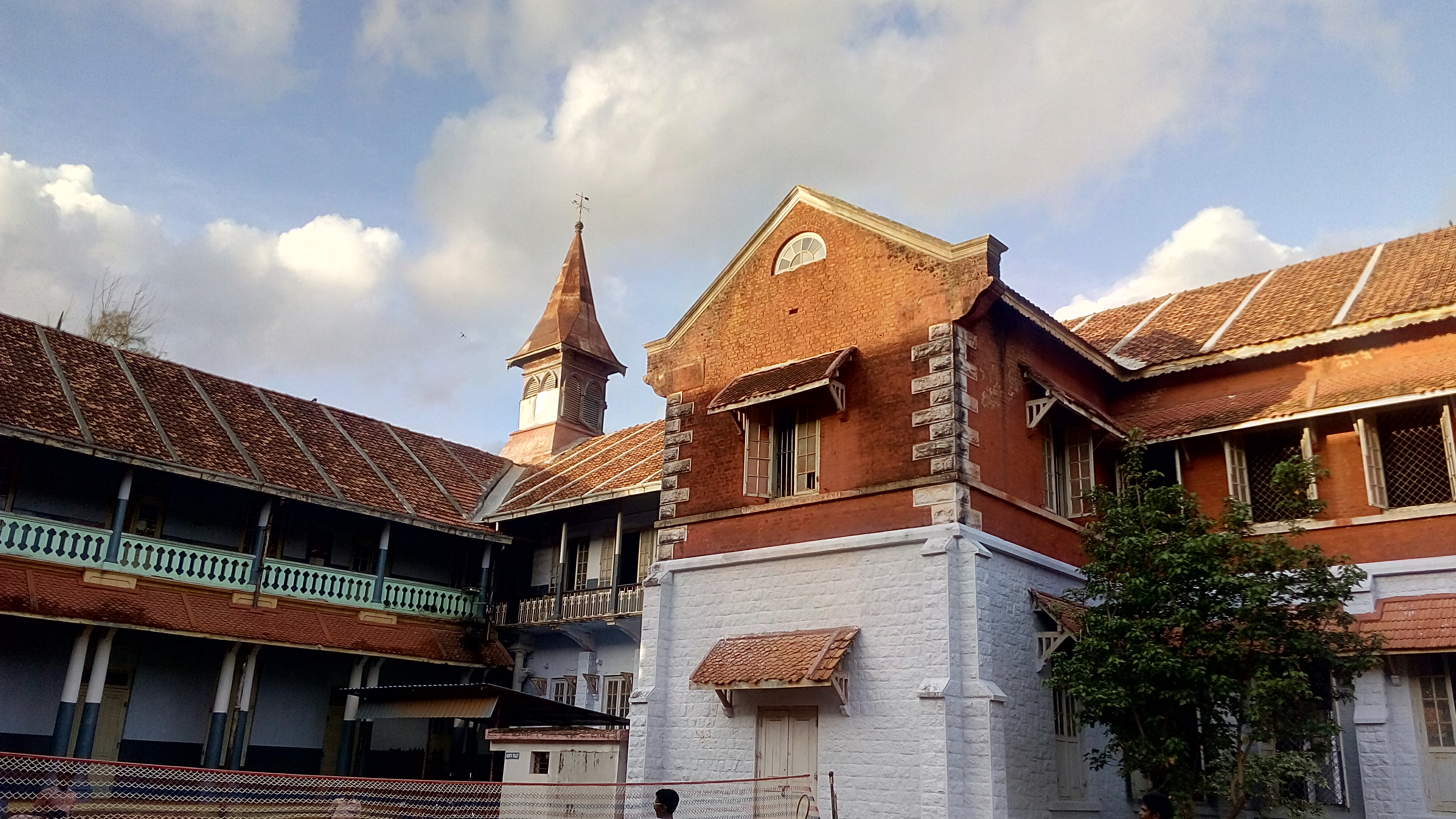 School Right side view